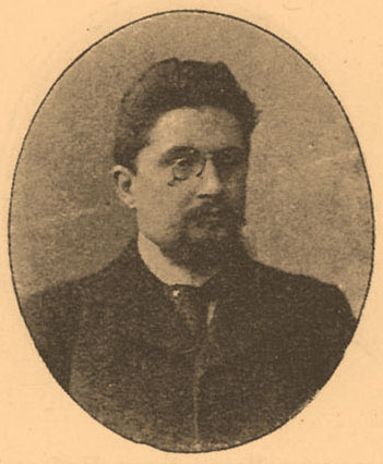 Illustration from Brockhaus and Efron Encyclopedic Dictionary (1890—1907)